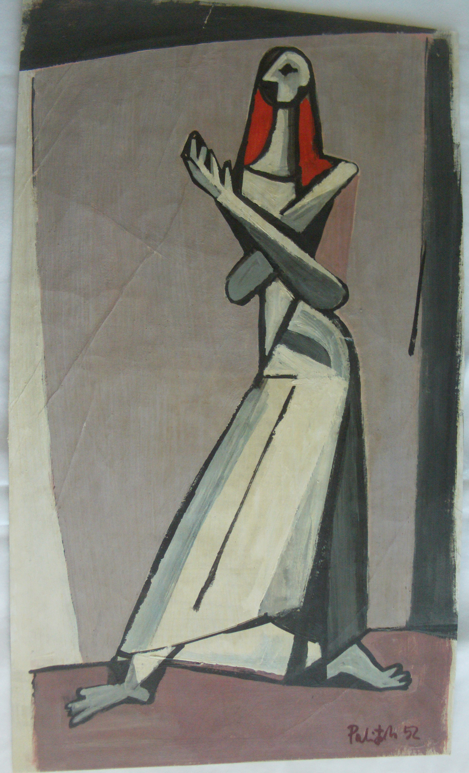 Hans Heinrich Palitzsch [3], 1952: Dore Hoyer [4] dances